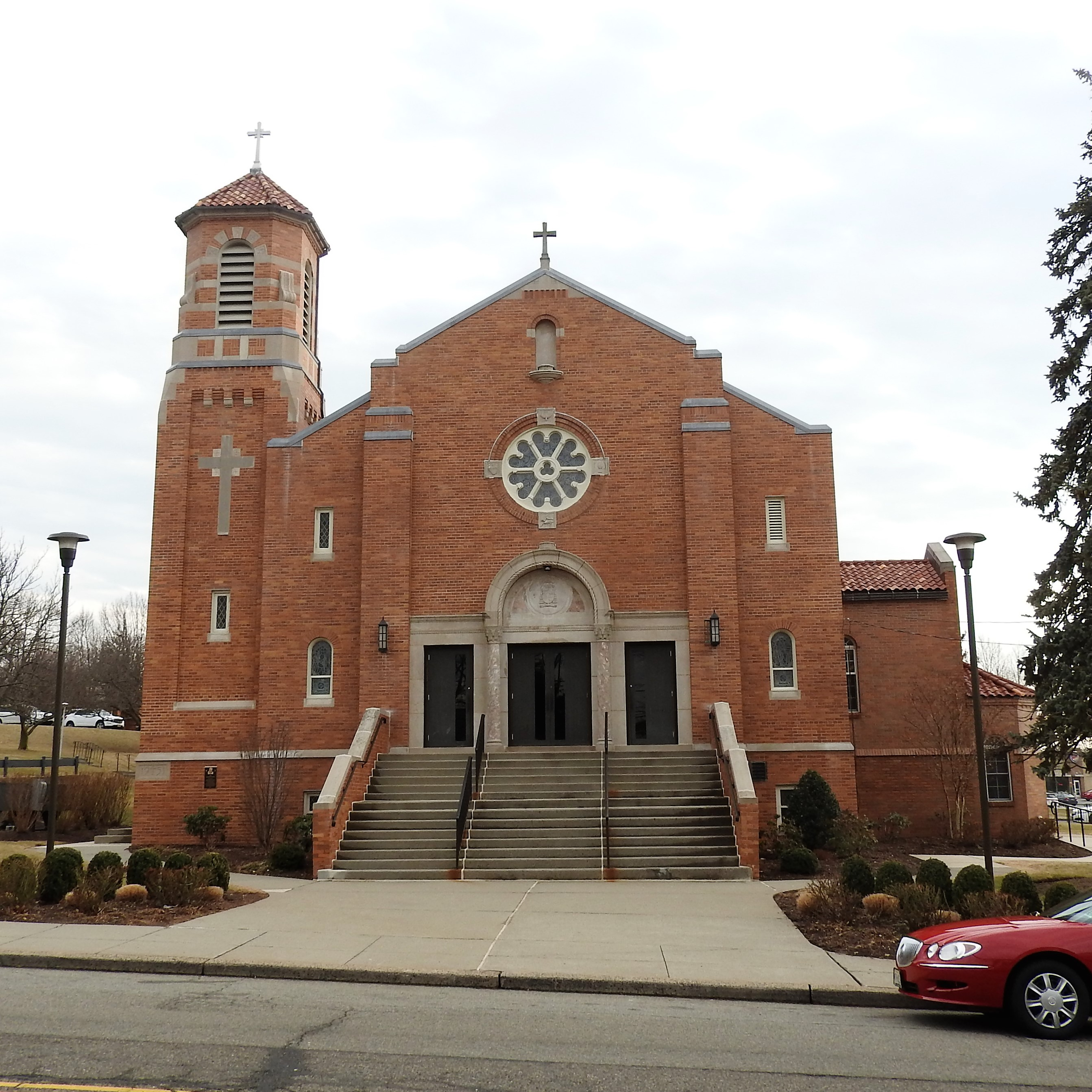 Looking south at Saint Catherine Church on a cloudy afternoon